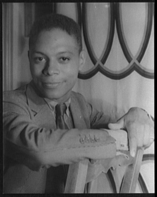 Title [Portrait of Jimmie Daniels] Contributor Names Van Vechten, Carl, 1880-1964, photographer Created / Published 1940 July 11. Subject Headings - Daniels, Jimmie,--approximately 1939-1984 Format Headings Portrait photographs. Notes - Title derived from information on verso of photographic print. - Van Vechten number: XLII K 19. - Also available on microfilm. - Gift; Carl Van Vechten Estate; 1966. - Forms part of: Portrait photographs of celebrities, a LOT which in turn forms part of the Carl Van Vechten photograph collection (Library of Congress). Medium 1 photographic print : gelatin silver. Call Number/Physical Location LOT 12735, no. 279 [P&P] Source Collection Van Vechten, Carl, 1880-1964. Portrait photographs of celebrities Repository Library of Congress Prints and Photographs Division Washington, D.C. 20540 USA Digital Id van 5a51878 //hdl.loc.gov/loc.pnp/van.5a51878 cph 3c14429 //hdl.loc.gov/loc.pnp/cph.3c14429 Library of Congress Control Number 2004662771 Reproduction Number LC-USZ62-114429 (b&w film copy neg.) Rights Advisory For publication information see "Carl Van Vechten Photographs (Lots 12735 and 12736)" Online Format image Description 1 photographic print : gelatin silver. LCCN Permalink